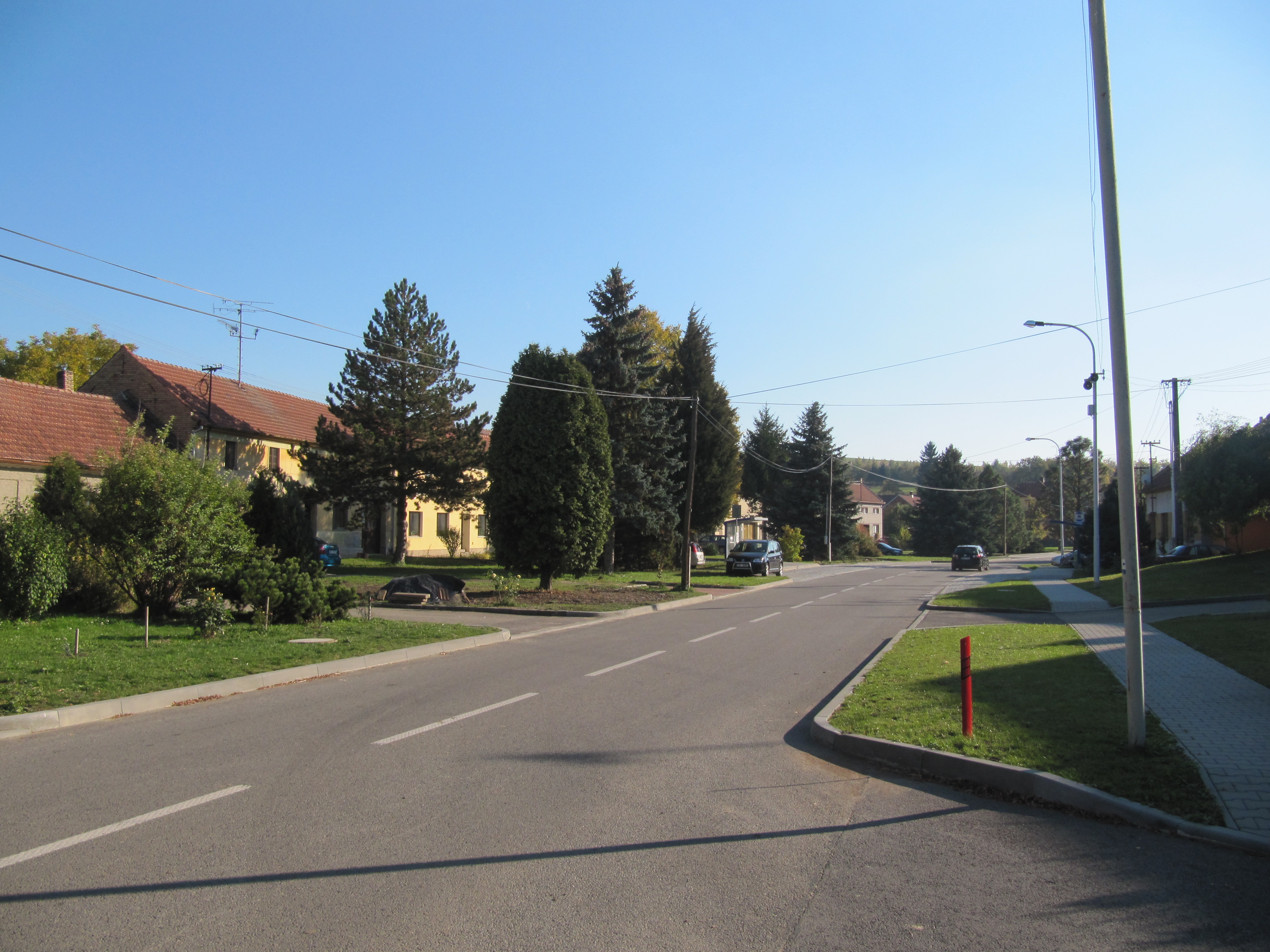 Uhřice in Vyškov District, Czech Republic. Common.